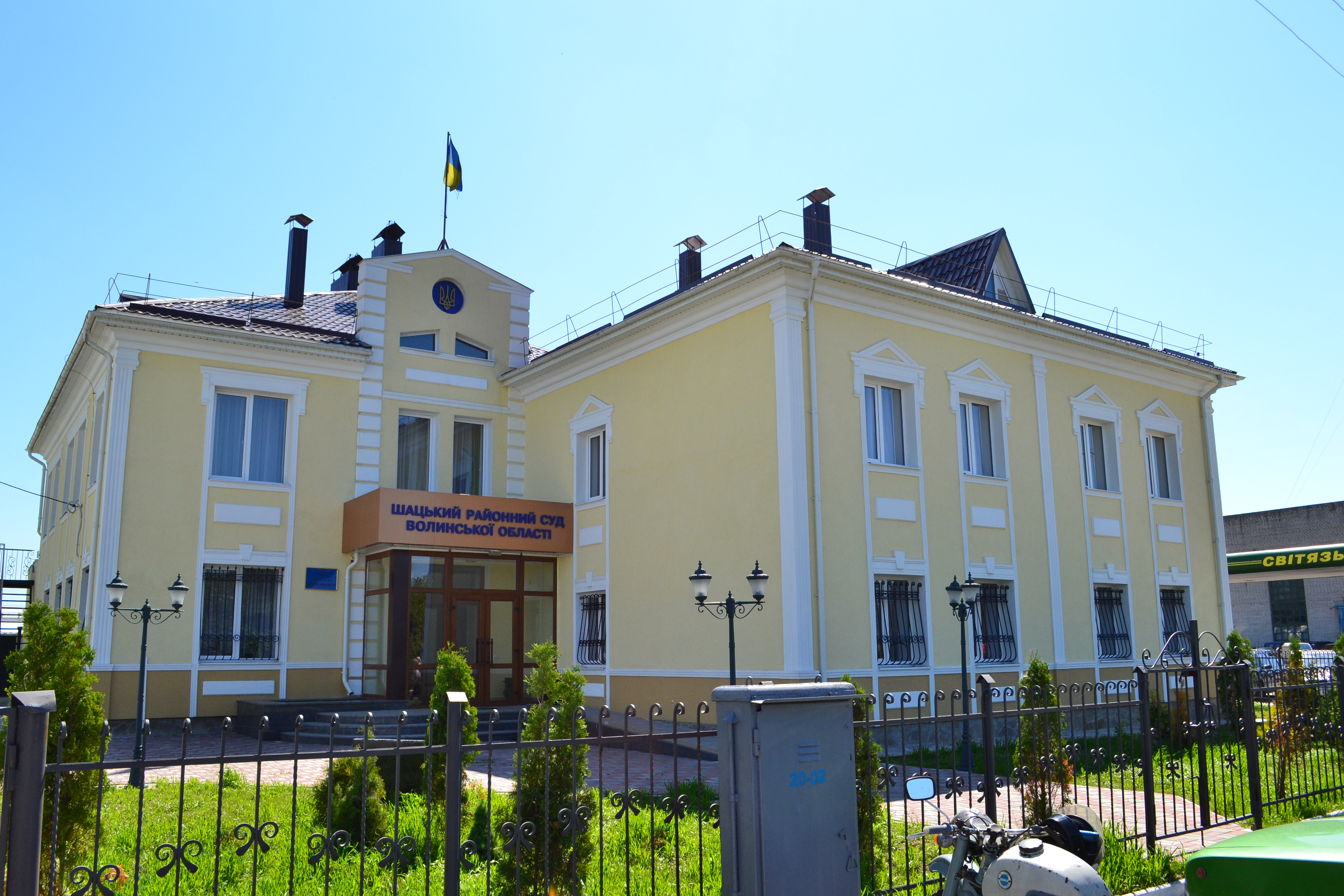 Shatsk District Court, Ukraine